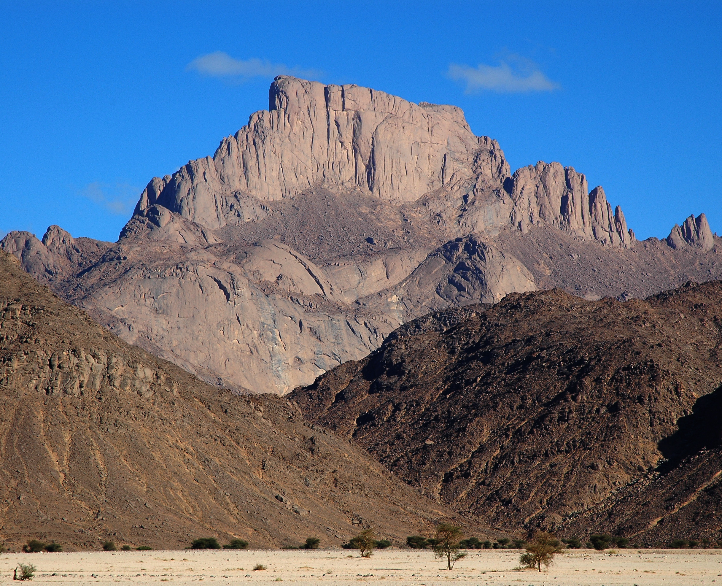 Oudane (name in Tamahaq) or Garet el Djenoun (‘mountain of genies/spirits’ in Arab), northernmost and highest peak of the Teffedest mountain range in South Algeria.